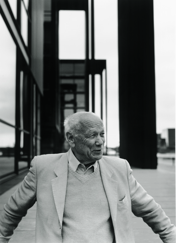 Portrait of the Danish architect Henning Larsen